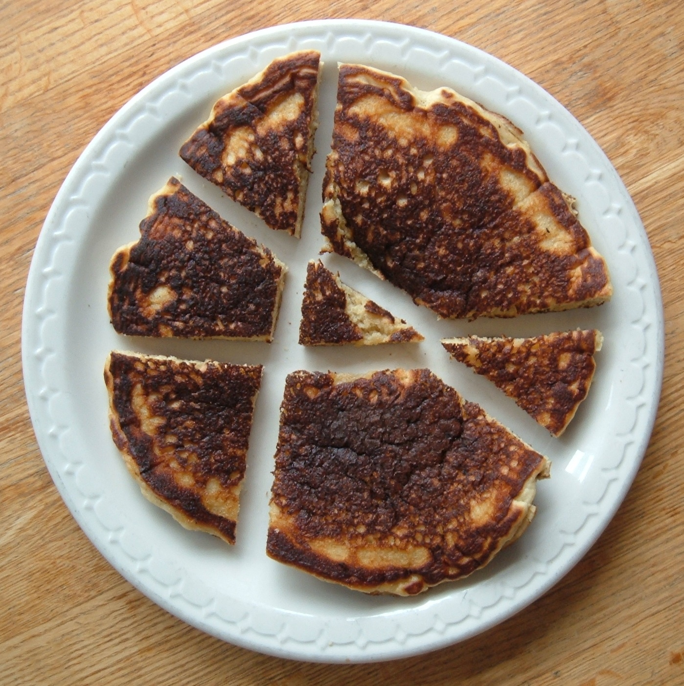 Pancake cut into seven pieces using three cuts, illustrating the Lazy caterer's sequence. The pancake was subsequently eaten. No food was wasted in producing this image.